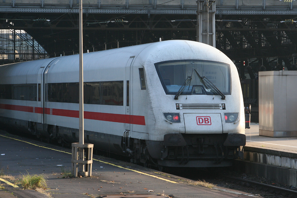 A control cab coach of a Metropolitan train, in Cologne central station.